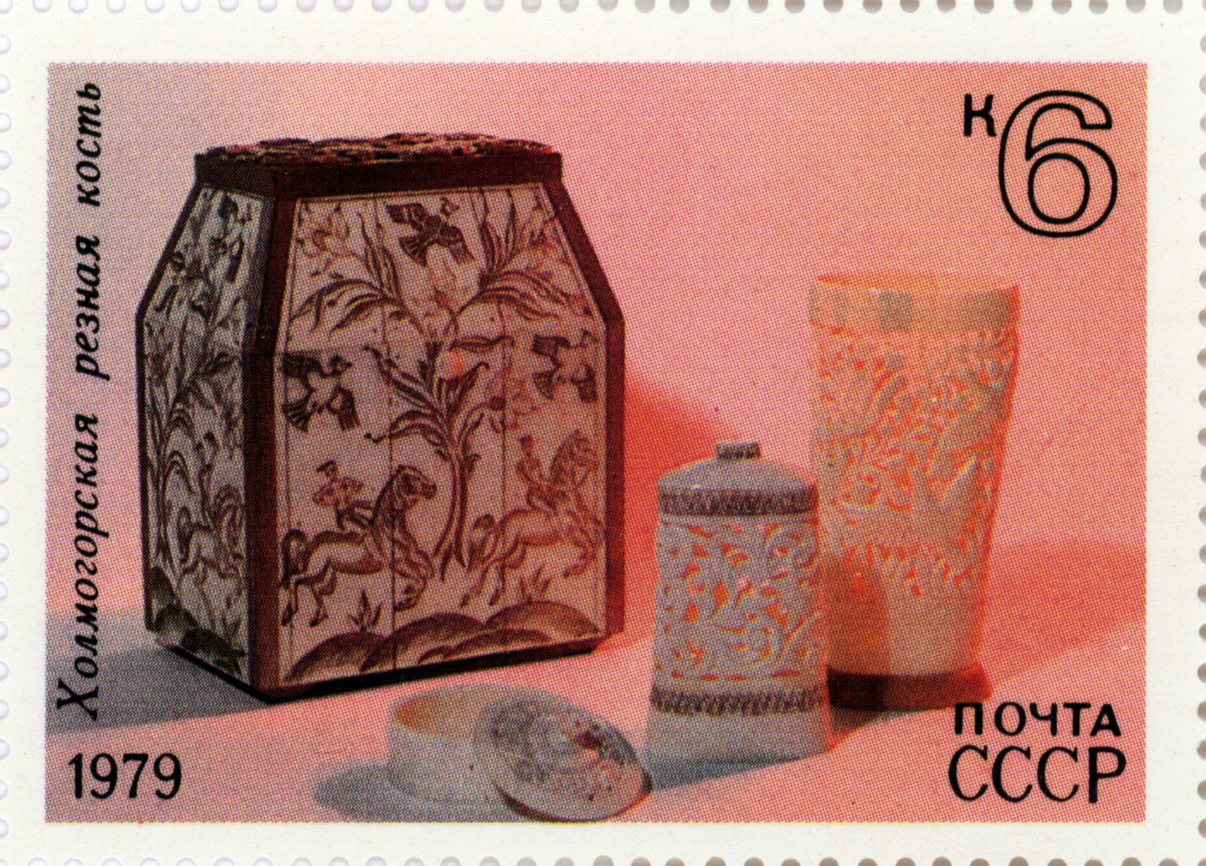 A USSR stamp depicting traditional Russian Kholmogory bone carving art